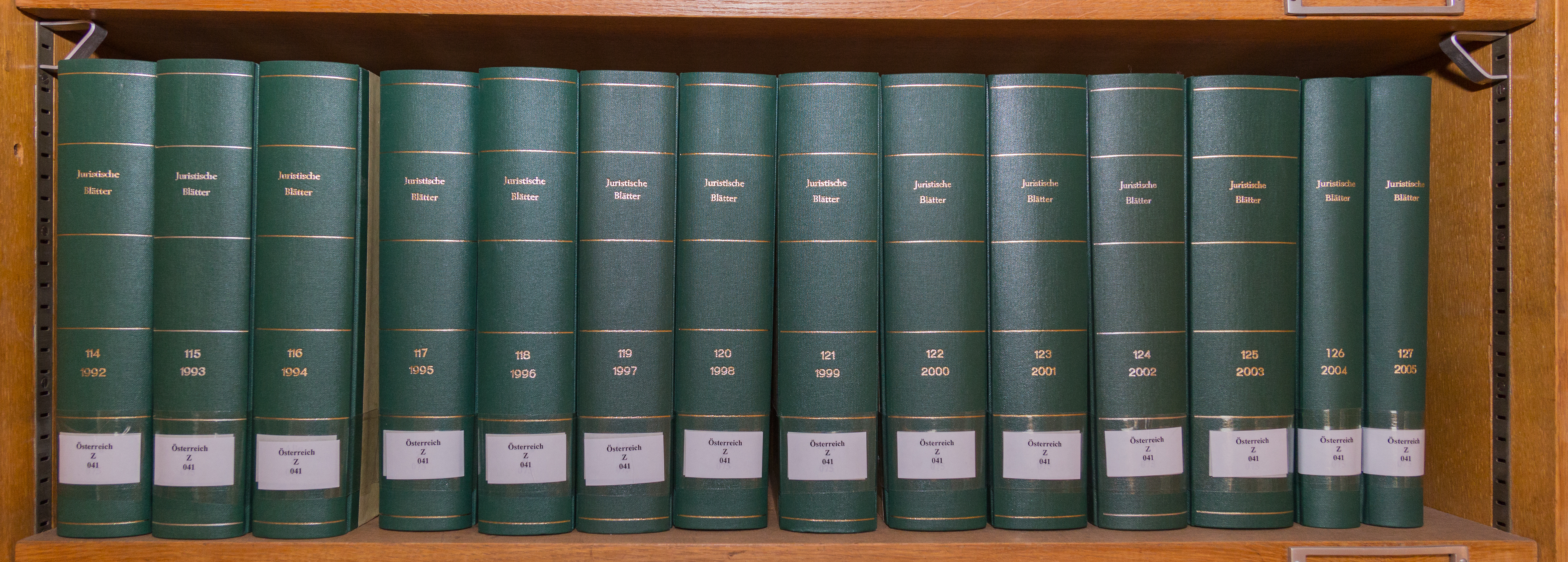 Bound volumes of the Austrian law journal Juristische Blätter in the Civil Law Library (Gemeinsame Bibliothek der Zivilrechtlichen Institute – Zivilrechtliche Bibliothek/ZRB) at the Juridicum, 14-16 University Street (Universitätsstraße 14-16) in the city centre of Münster, North Rhine-Westphalia, Germany. The ZRB is one of the several libraries of the University of Münster (Westfälische Wilhelms-Universität Münster). Picture taken with permission by the Juridicum/ZRB staff.